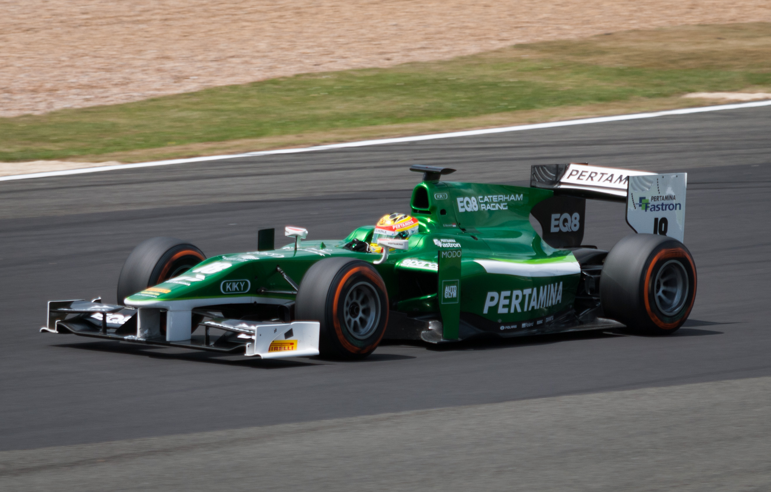 Rio Haryanto driving for Caterham Racing at Silverstone. Round 5 of the 2014 GP2 Series Championship.